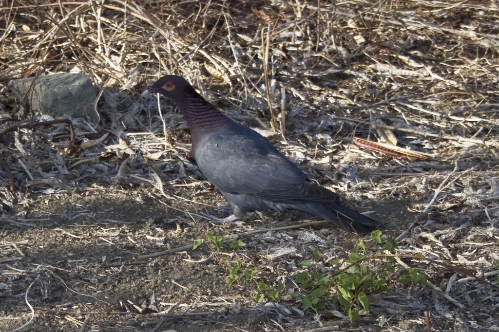 A Scaly-naped Pigeon at Virgin Islands National Park, St John, United States Virgin Islands.